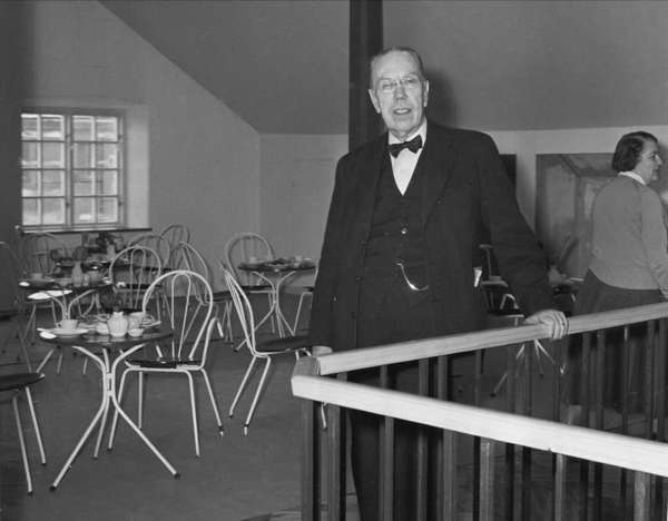 Swedish labour politician Tycho Hedén (1887-1962), Uppsala, during a press conference at Upplandsmuseet (Museum of Uppland) in Uppsala in Sweden.